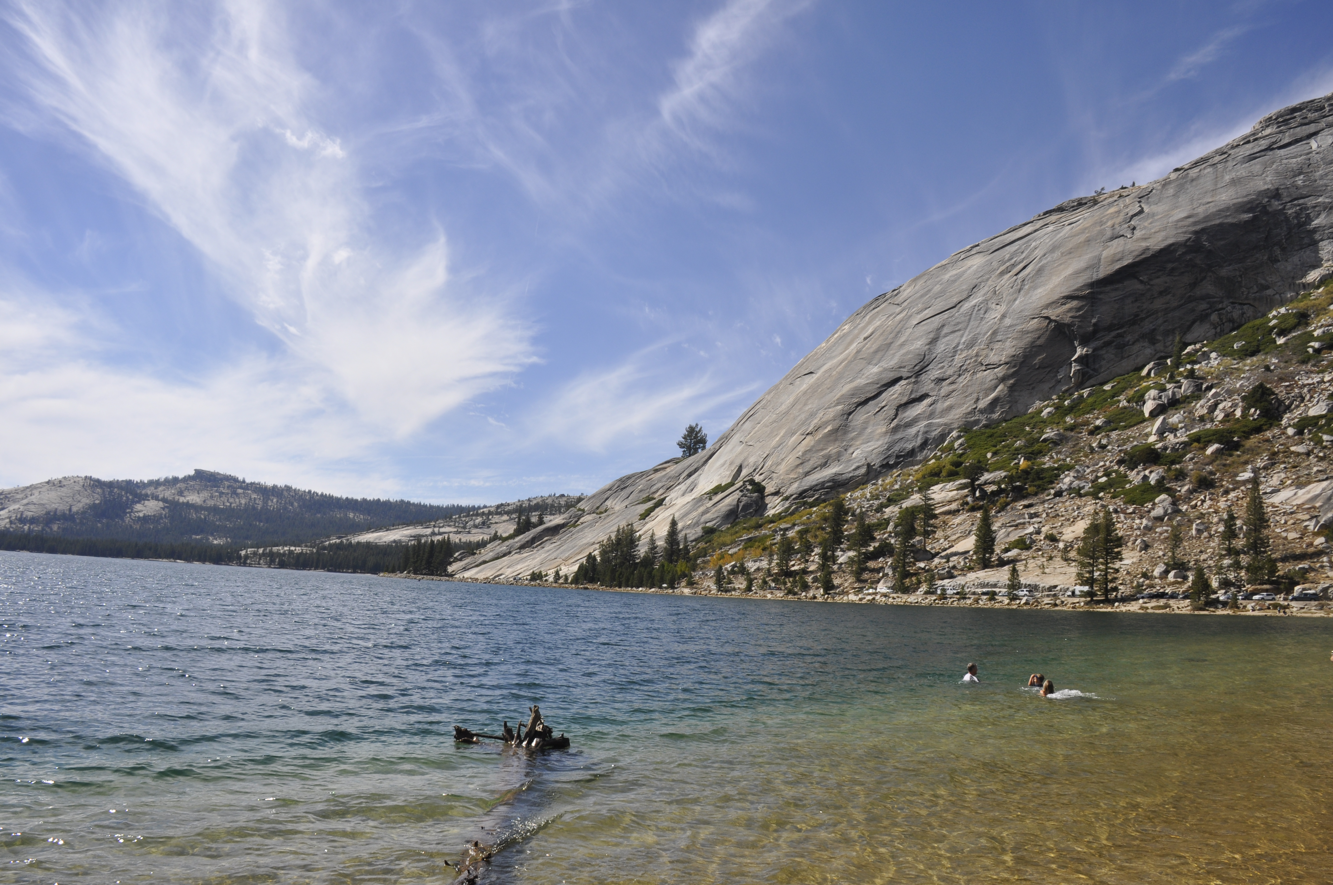 Tuolumne Meadows section of Yosemite National Park. Tenaya Lake - East Beach